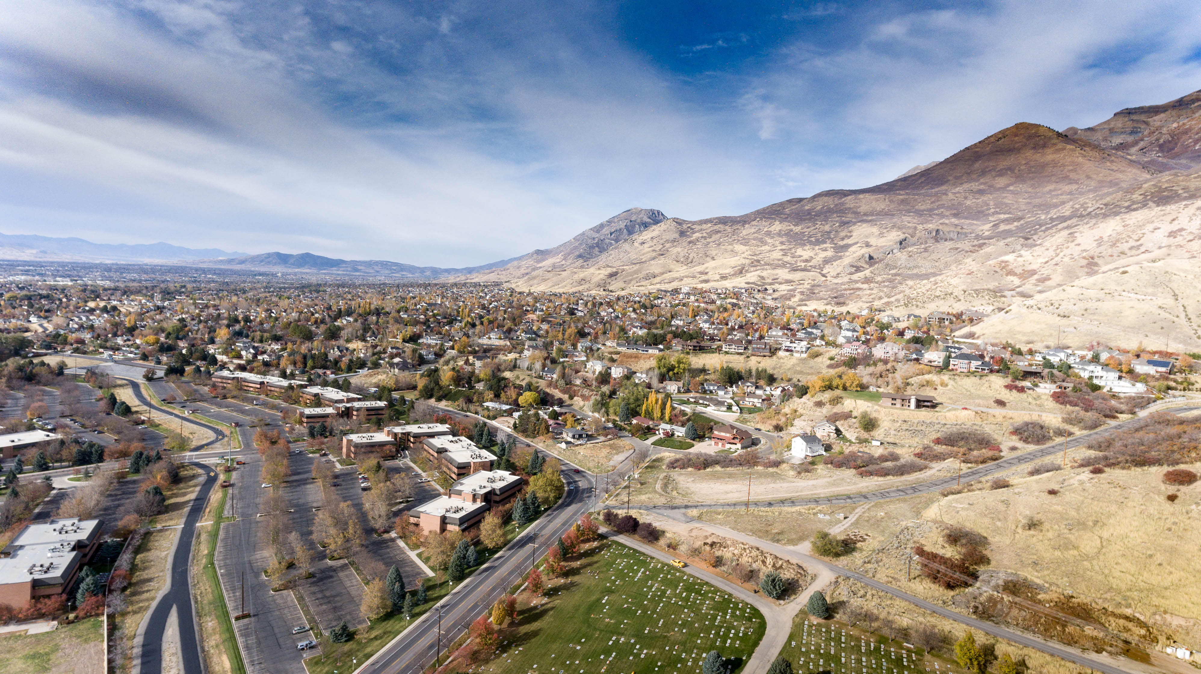 Past the old WordPerfect complex. Man we had fun then.